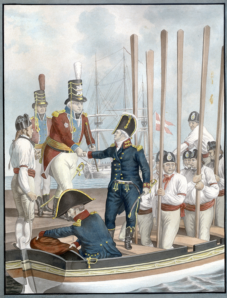 At Toldboden (The Customs House), Major General Heinrich Ernst Peymann says goodbye to Vice Admiral Steen Andersen Bille, who is heading out for an attack on the British Navy on 17 August, 1807.